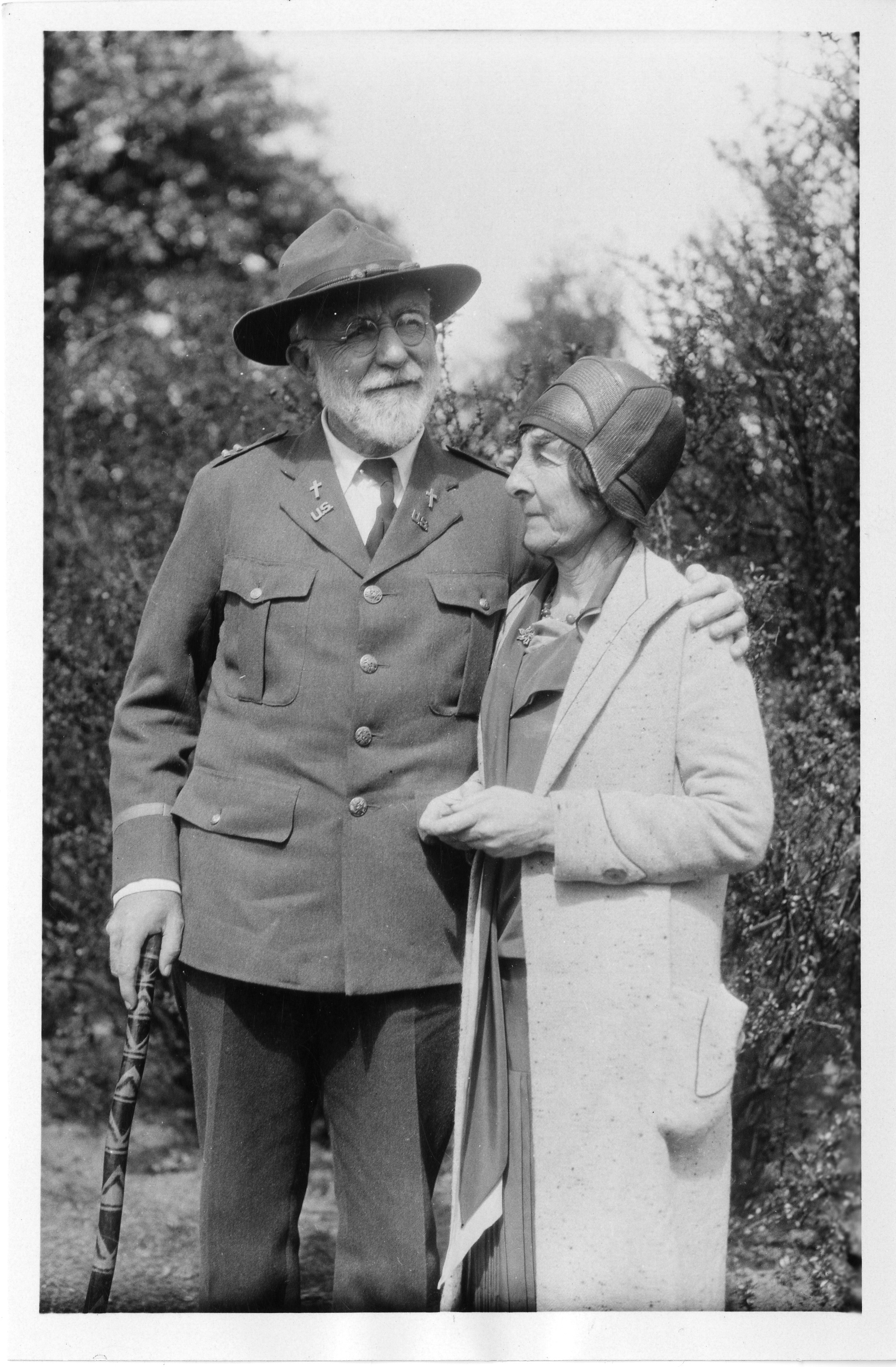 Description: Mary Knapp Strong Clemens (1873-1965) is shown at the New York Botanical Garden with her husband, Joseph Clemens (1862-1936), an ordained Methodist minister who had become a U.S. Army Chaplain in 1902. While stationed in the Philippines, Mary and Joseph began collecting botanical specimens for scientists throughout the world. After his death, Mary carried on that work for almost 30 years, eventually immigrating to Australia, where she worked at the Queensland Herbarium. Creator/Photographer: Frank Thone Medium: Black and white photographic print Persistent URL: [1] Repository: Smithsonian Institution Archives Collection: Science Service Records, 1902-1965 (Record Unit 7091) - Science Service, now the Society for Science & the Public, was a news organization founded in 1921 to promote the dissemination of scientific and technical information. Although initially intended as a news service, Science Service produced an extensive array of news features, radio programs, motion pictures, phonograph records, and demonstration kits and it also engaged in various educational, translation, and research activities. Accession number: SIA2008-0146